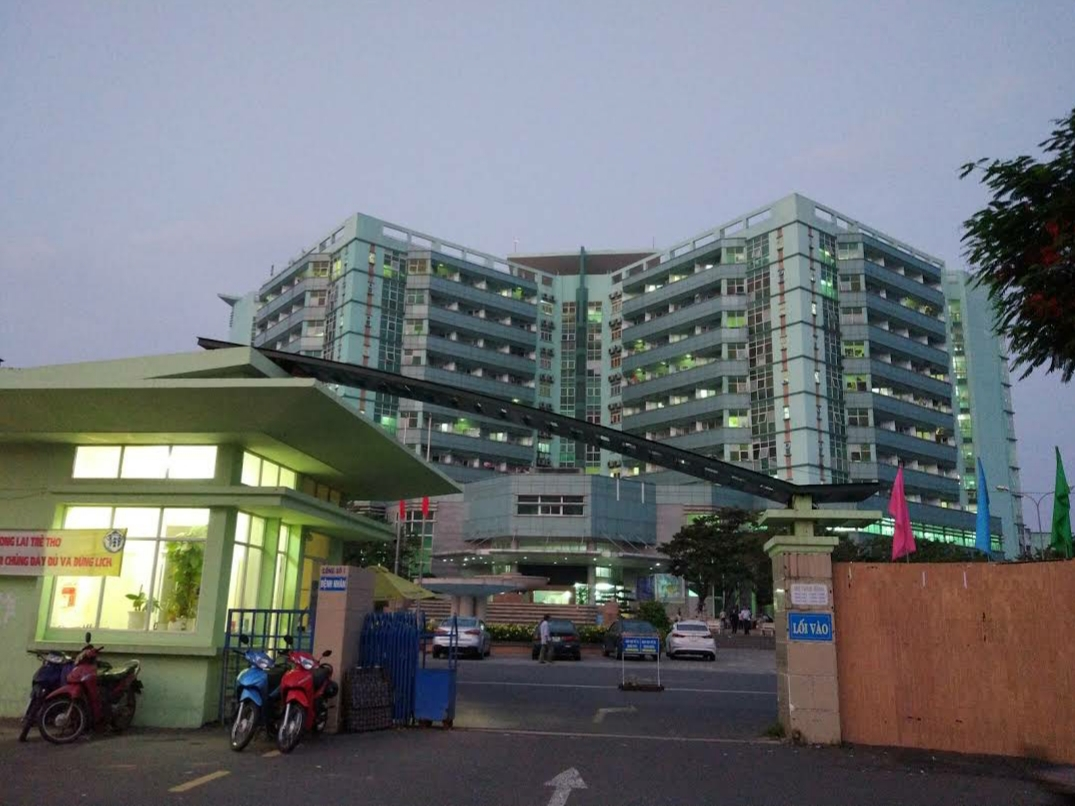 Đà Nẵng